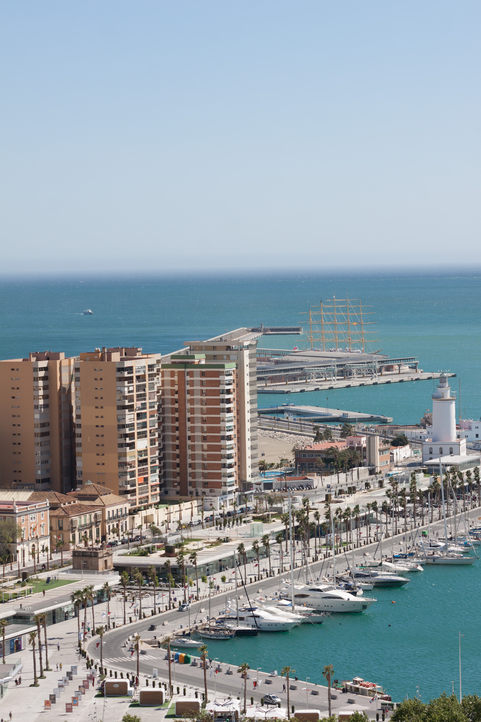 Port of Málaga, Spain.